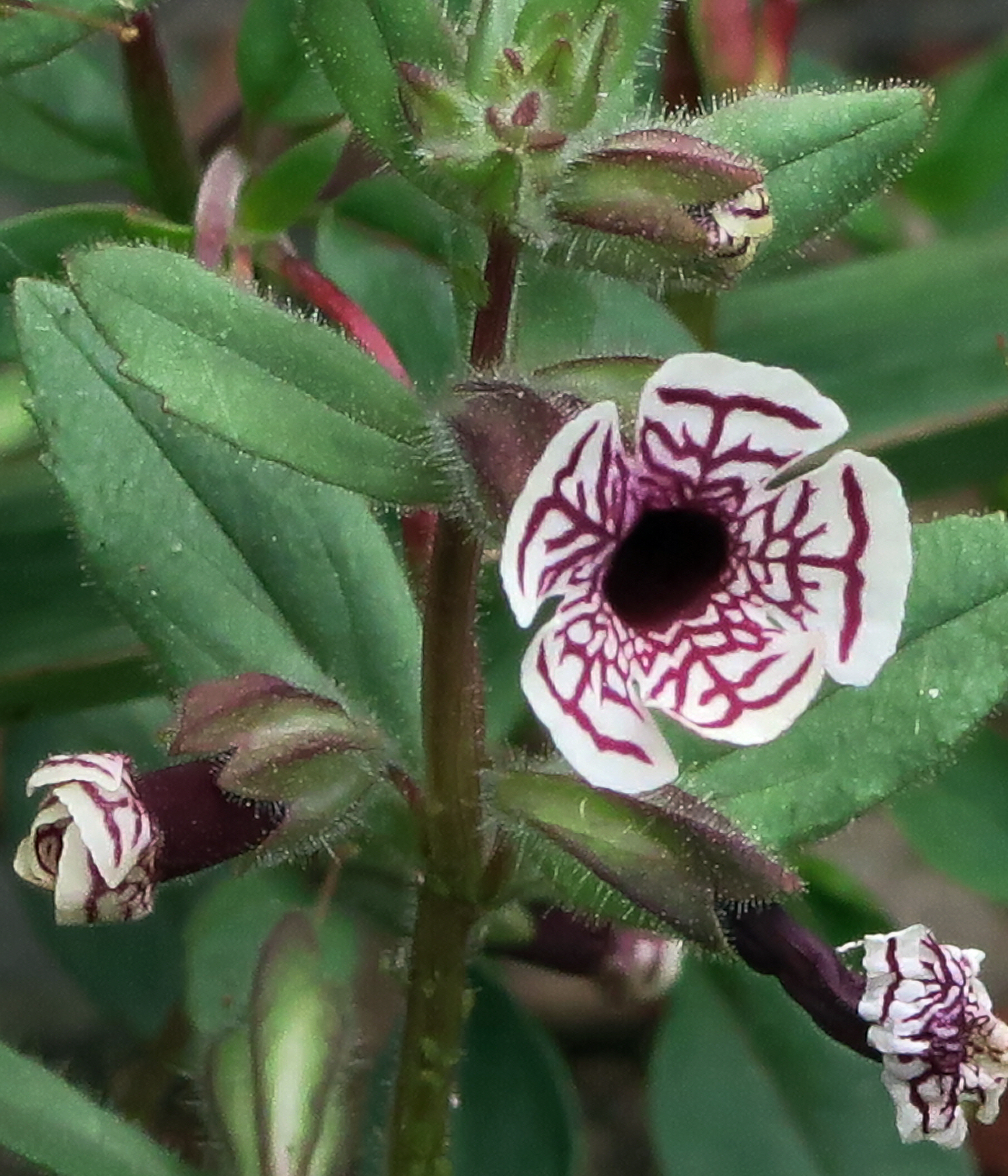 Mimulus pictus—calico monkeyflower. The species is included in the CNPS Inventory of Rare and Endangered Plants on list 1B.2 (rare, threatened, or endangered in CA and elsewhere).The annual calico monkeyflower grows in bare, sunny spots near granitic outcrops in the Sierra foothills east of Bakersfield trending north to near Visalia. Although rare, seeds are available for sale from a number of sources. It will reseed in the garden. The species may move to the genus Diplacus or the genus Eunanus depending on which of the duelling taxonomic sources appeals to you. It remains, for now, in the genus Mimulus according to the Jepson e-Flora. Photographed at Regional Parks Botanic Garden located in Tilden Regional Park near Berkeley, CA